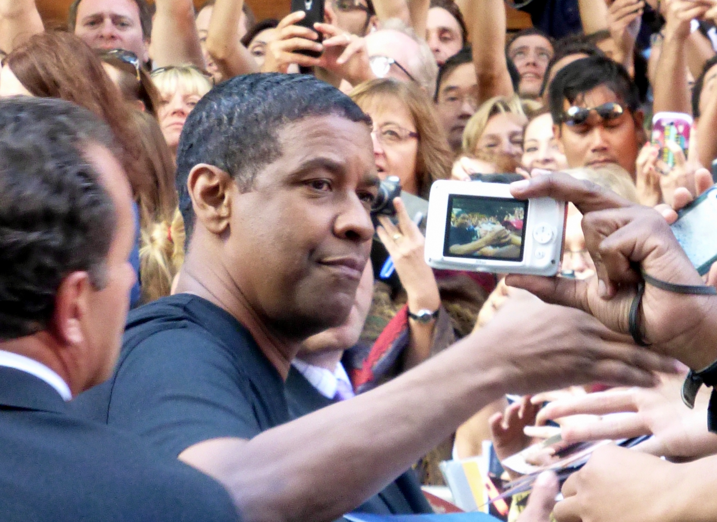 Denzel Washington at the press conference of The Equalizer, 2014 Toronto Film Festival